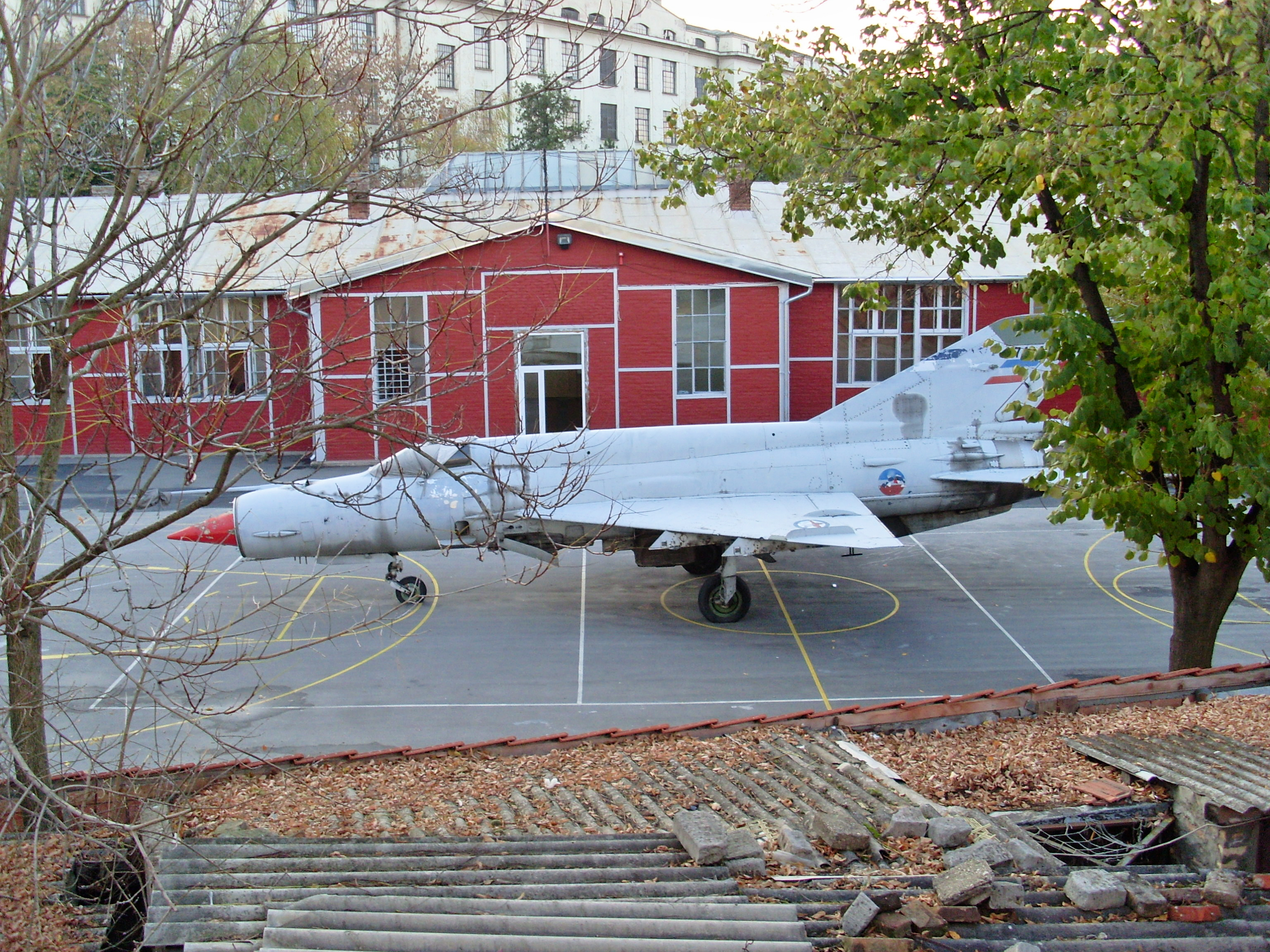 Mig-21 at the courtyard of the aero-technical school "Petar Drapsin"